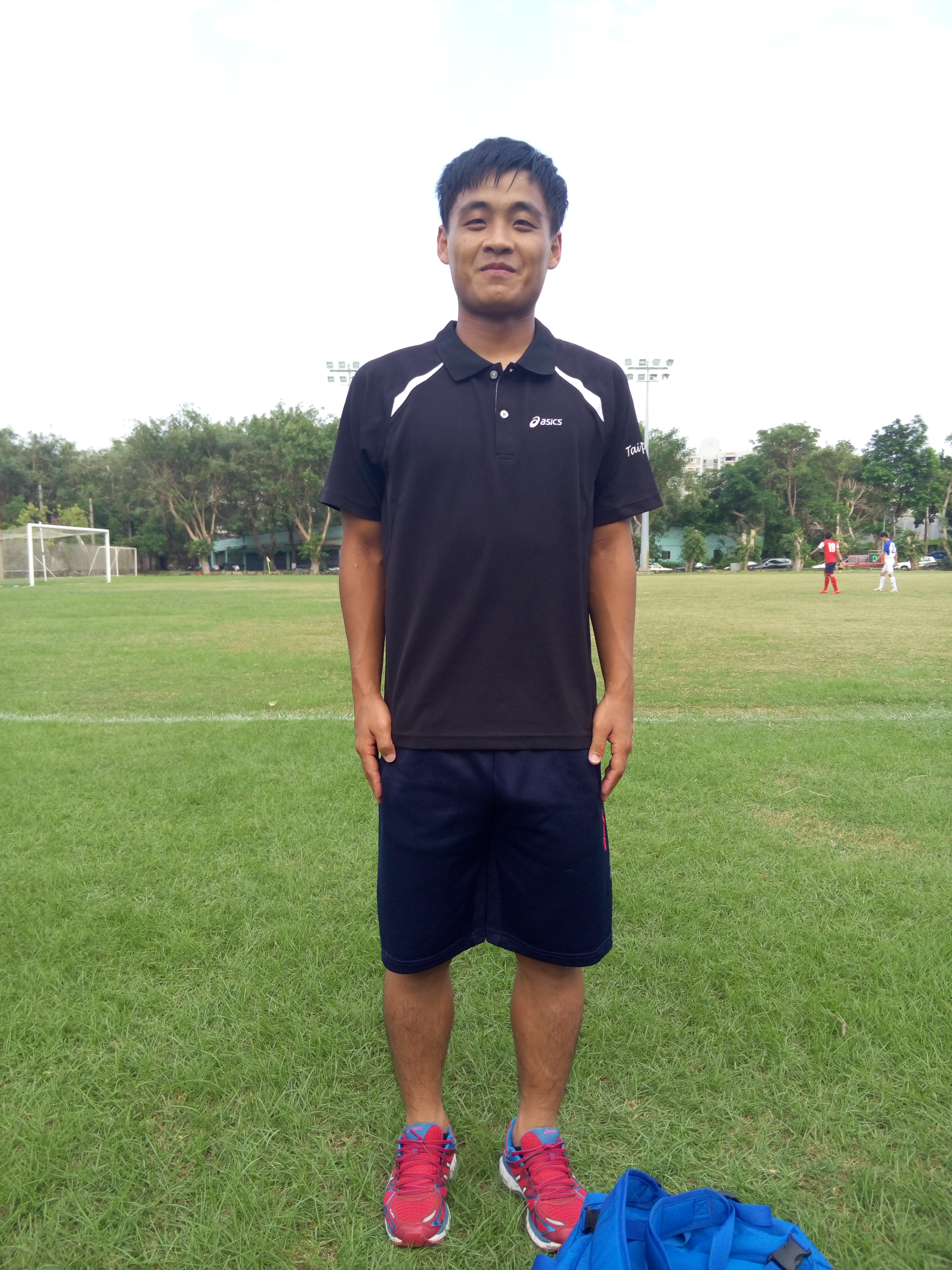 Lin Chien-Hsun（CHT：林建勛）- The Football Player from Taiwan